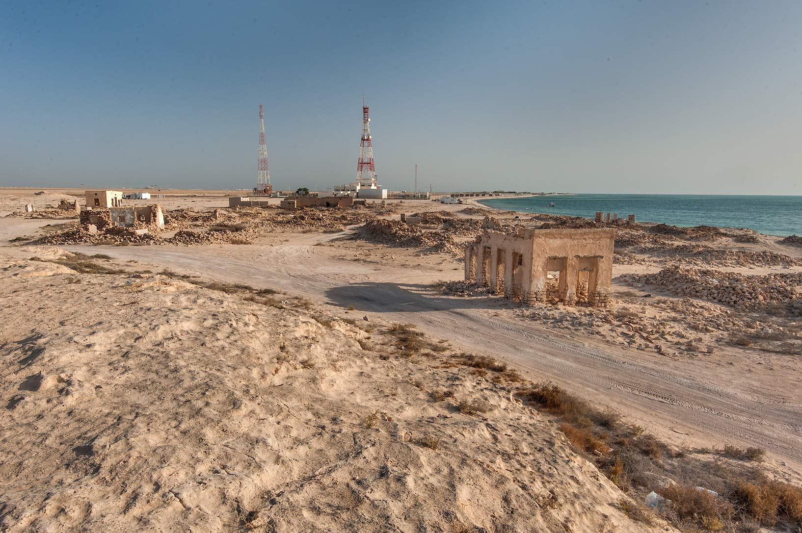 View from a jebel (stone hill) of the abandoned village of Al Ghariyah on Qatar's north-eastern coast in Al Shamal Municipality.